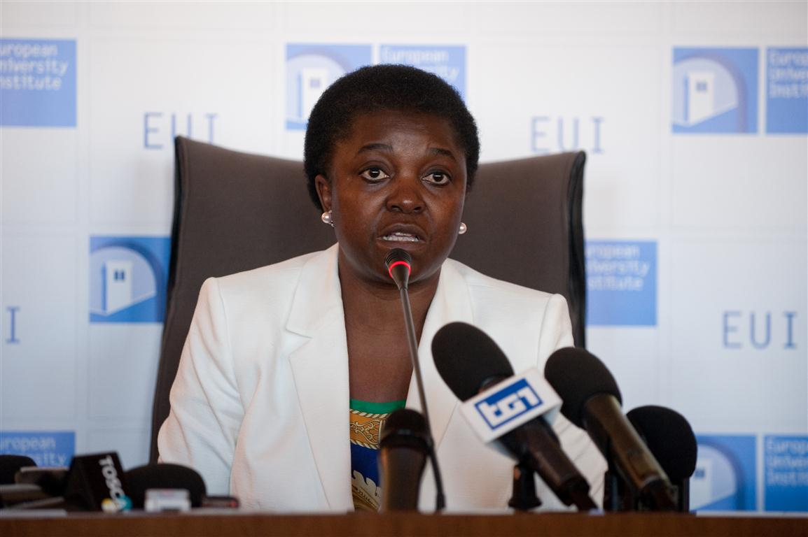 Cécile Kyenge at The State of the Union 2013, European University Institute.